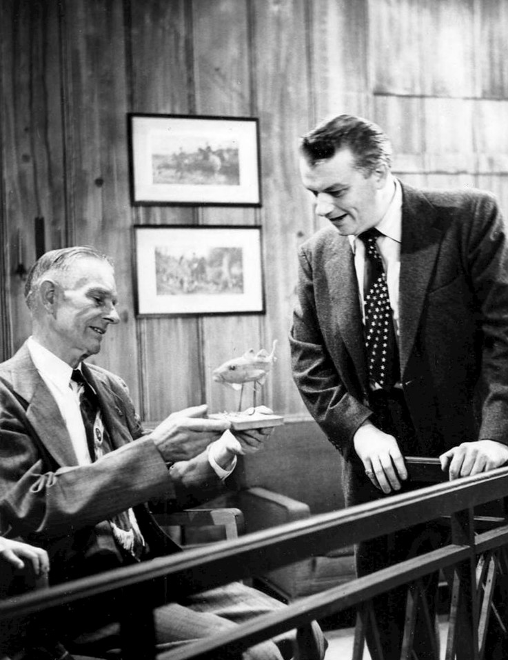 Photo of John Reed King (right) and a contestant from the television game show There's One In Every Family.